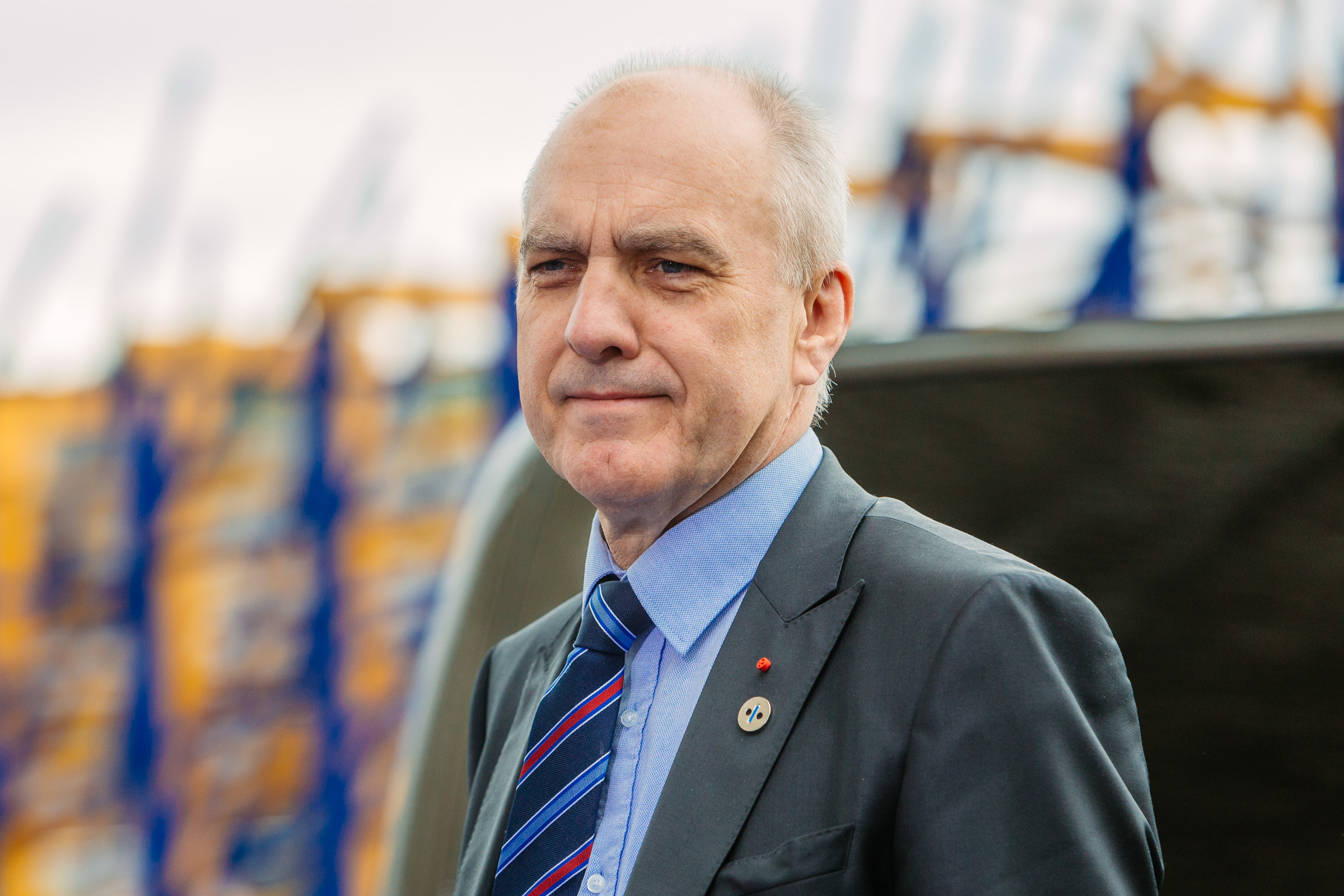 Jaroslaw Pietras, Director General, General Secretariat of the Council of the EU, General Secretariat of the Council